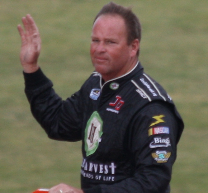 NASCAR driver Tony Raines during driver's introductions at the 2012 Sargento 200 Nationwide Series race at Road America.